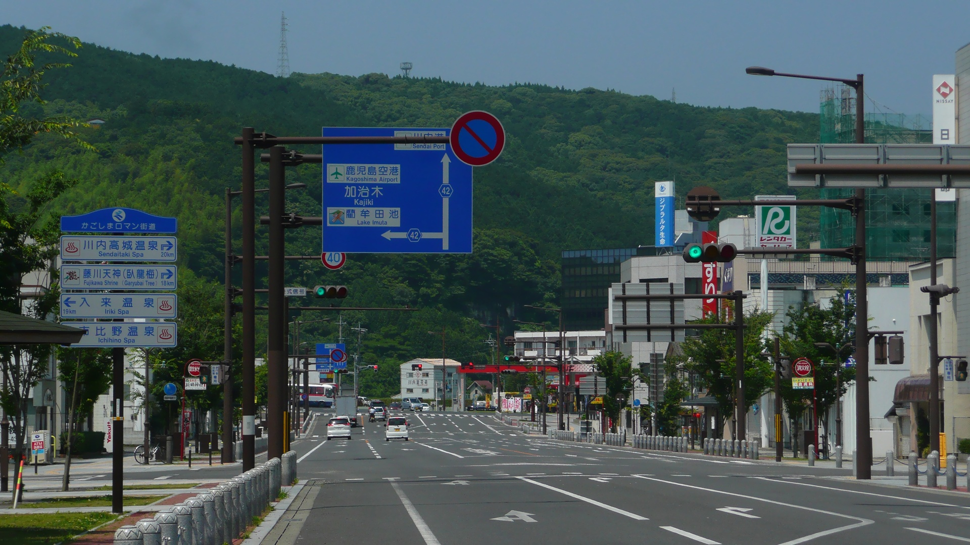 Kagoshima Prefectural Road No.42 Sendai-Kajiki Line (Around the "Sendai Station", Satsumasendai City, Kagoshima, Japan)